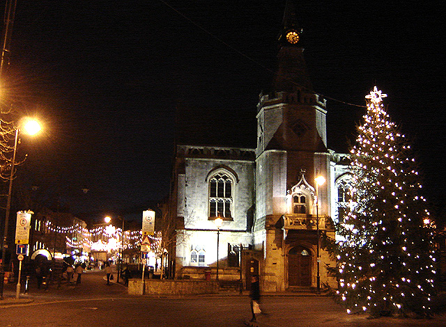 Banbury Town Hall, Banbury, Oxfordshire, UK. 23 December 2005. Photographer: Fin Fahey